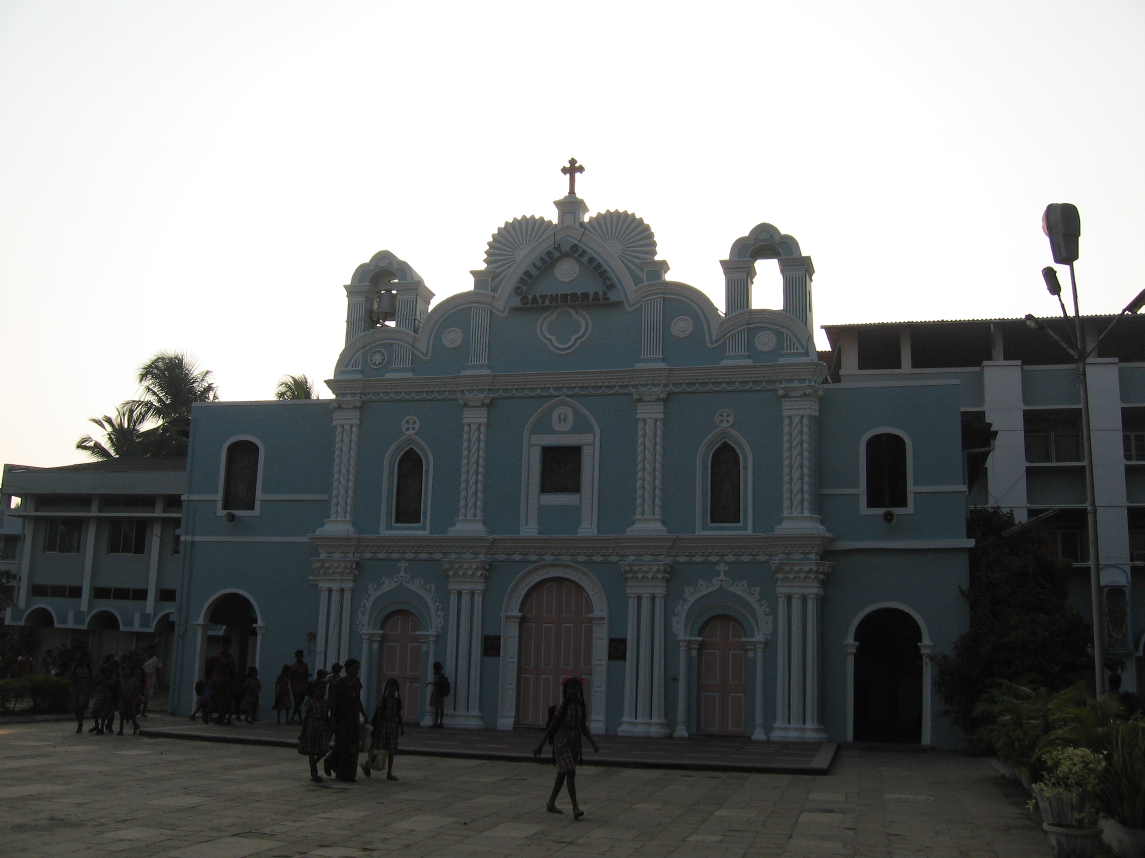 The Catholic Cathedral ('Our Lady of Graces') of the diocese of Vasai, in Papdy, Vasai (North of Bombay)